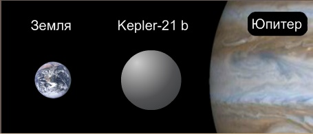 Comparative sizes of Earth, Kepler-21 b and Jupiter.